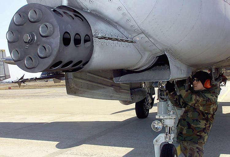 Inspection of the gatling gun of an A-10 Thunderbolt II, at Osan Air Base, Korea. CREDIT: U.S. Air Force photo by Staff Sgt. Bradley C. Church. COPYRIGHT: Quote from af.mil: Information presented is considered public information and may be distributed or copied. Use of appropriate byline/photo/image credits is requested. PICTURE PREPARED for Wikipedia by Adrian Pingstone in May 2004.